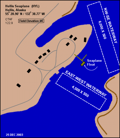 Diagram of Hollis Seaplane Base (IATA/FAA: HYL) in Hollis, Alaska, United States